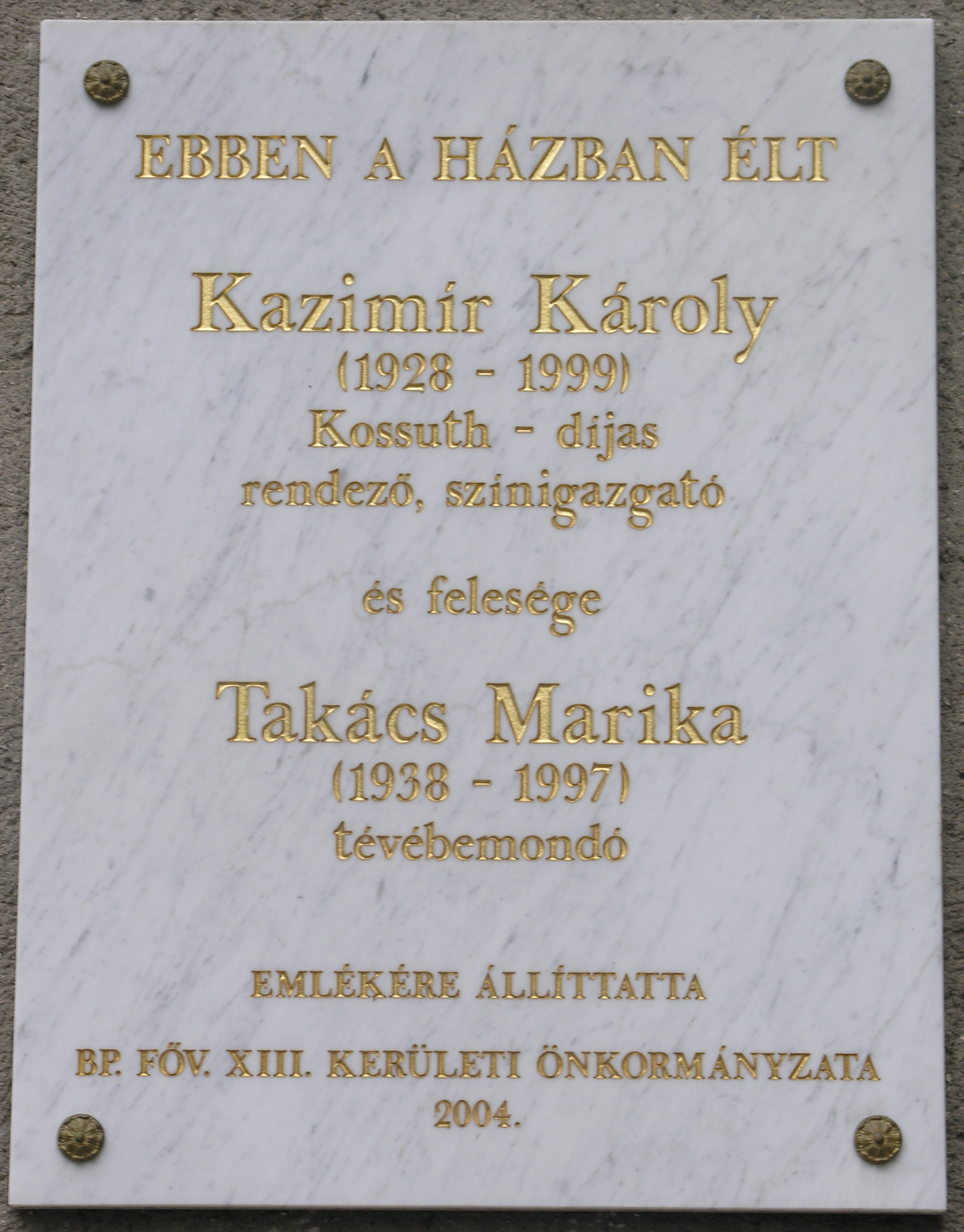 Commemorative plaque of Károly Kazimir and Mária Takács in Budapest District XIII, Szent István Park No 4